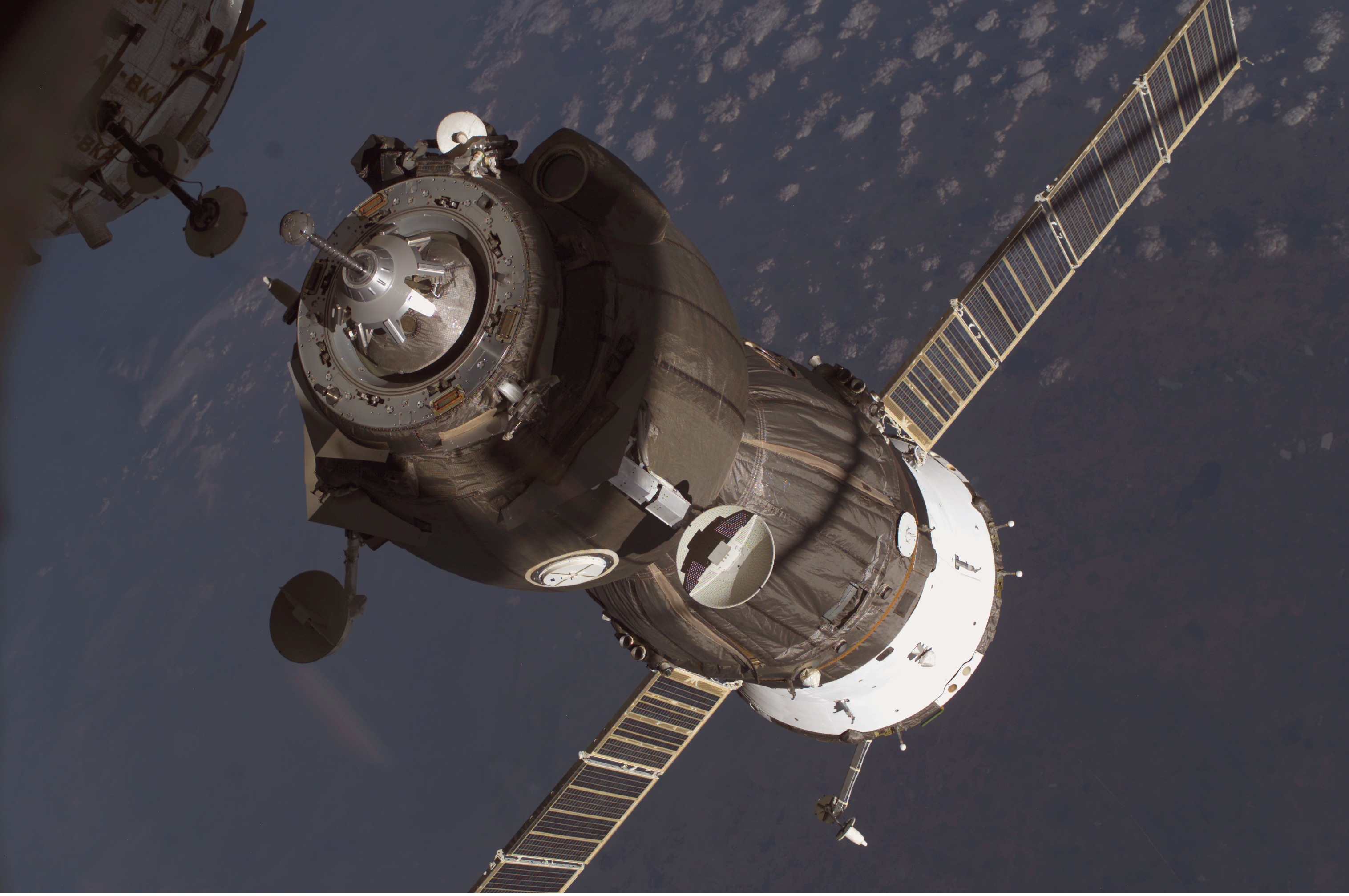 Soyuz TMA-12 spacecraft approaches the International Space Station, carrying Russian Federal Space Agency cosmonauts Sergei Volkov, Expedition 17 commander; Oleg Kononenko, flight engineer; and South Korean spaceflight participant So-yeon Yi. Volkov and Kononenko will spend six months on the station, while Yi will return to Earth April 19 with two of the Expedition 16 crewmembers currently on the complex. Docking with the Pirs Docking Compartment occurred at 8:57 a.m. (EDT) on April 10, 2008.